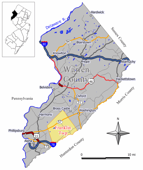 Original work by Jim Irwin, December 2005. Map of Franklin Township in Warren County, New Jersey.